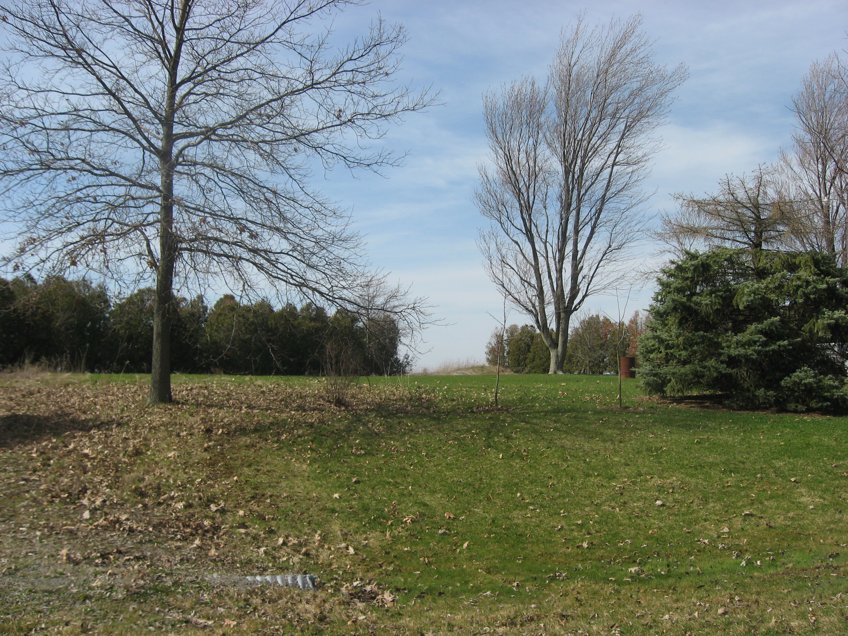 Site of the Mat Unverferth Round Barn, seen from the east. Located at 15182 Road 17N south of Kalida in Union Township, Putnam County, Ohio, United States, the barn was built in 1910 and is listed on the National Register of Historic Places, despite having been destroyed.